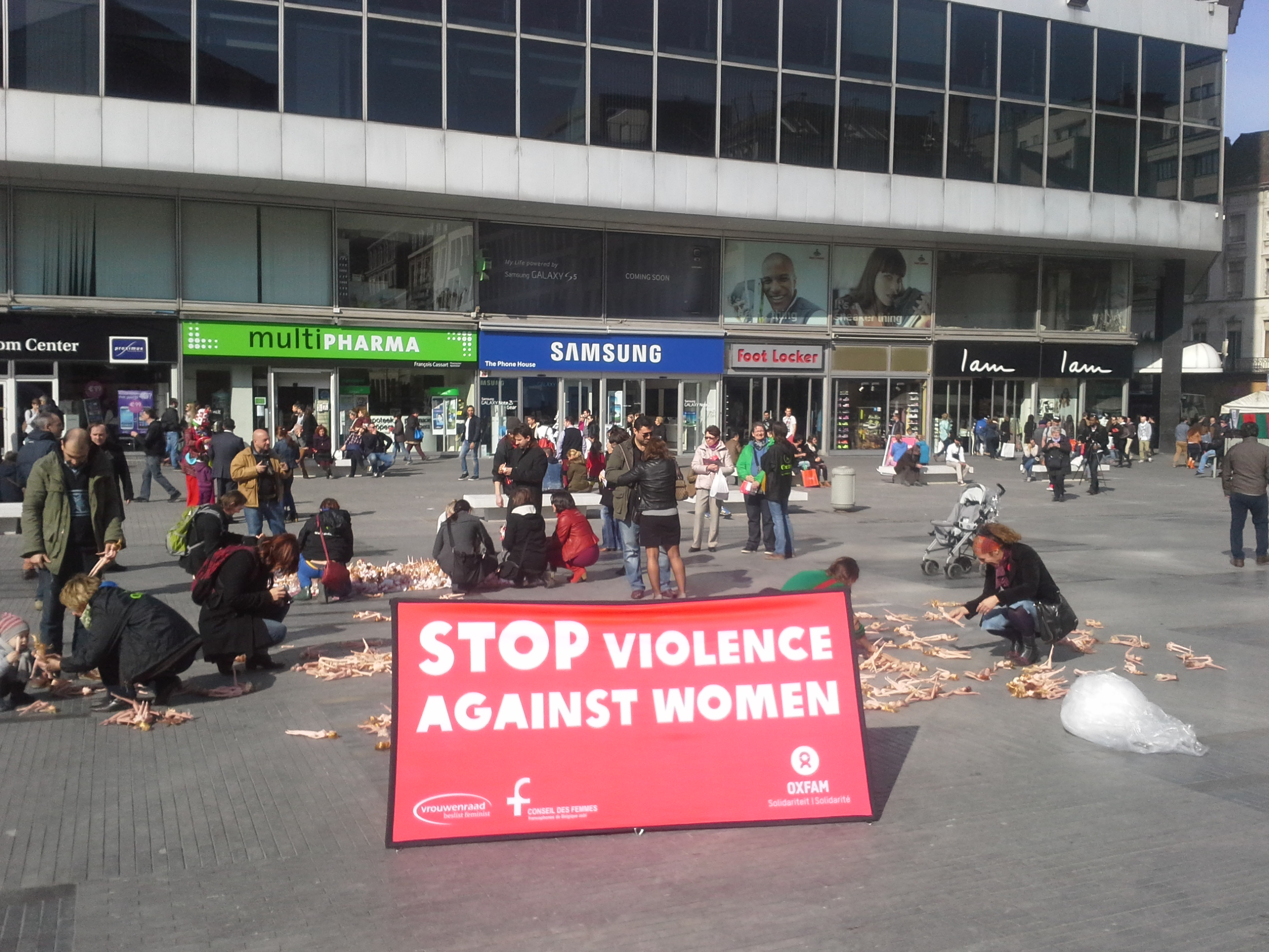 International Women's Day - Muntplein, Brussels, Belgium